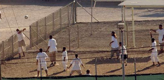 Compliant captives play soccer in Guantanamo.